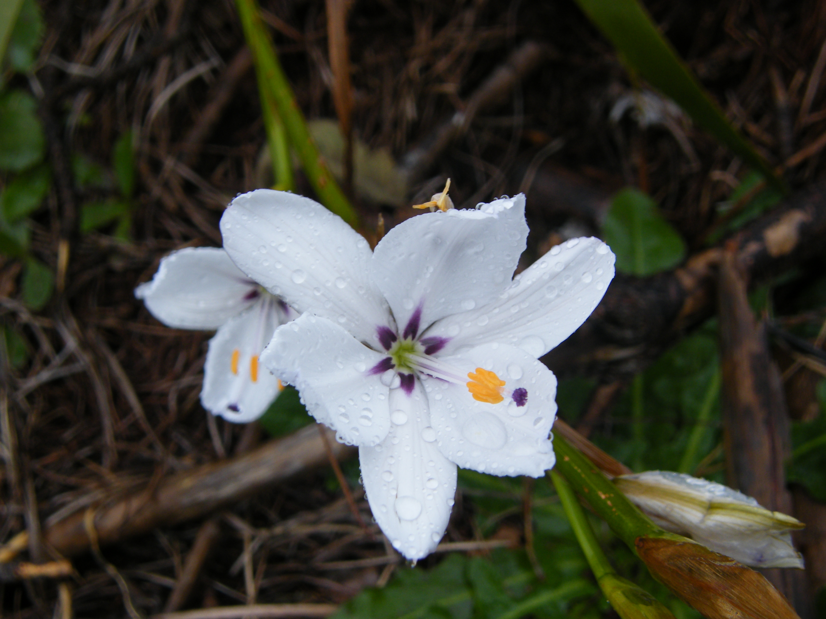 Star Eyed Areistea